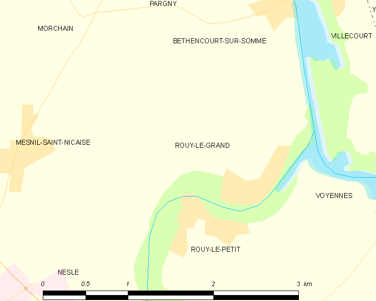 Map of French municipality Rouy-le-Grand